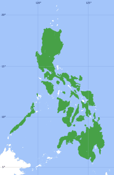 Distribution of Pygmy Swiftet (Collocalia Troglodytes). Resident range: dark green. Data Source: Phil Chantler, Gerald Driessens: A Guide to the Swifts and Tree Swifts of the World; Pica Press; Mountfield 2000; ISBN 1-873403-83-6